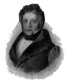 Lars Kinmanson